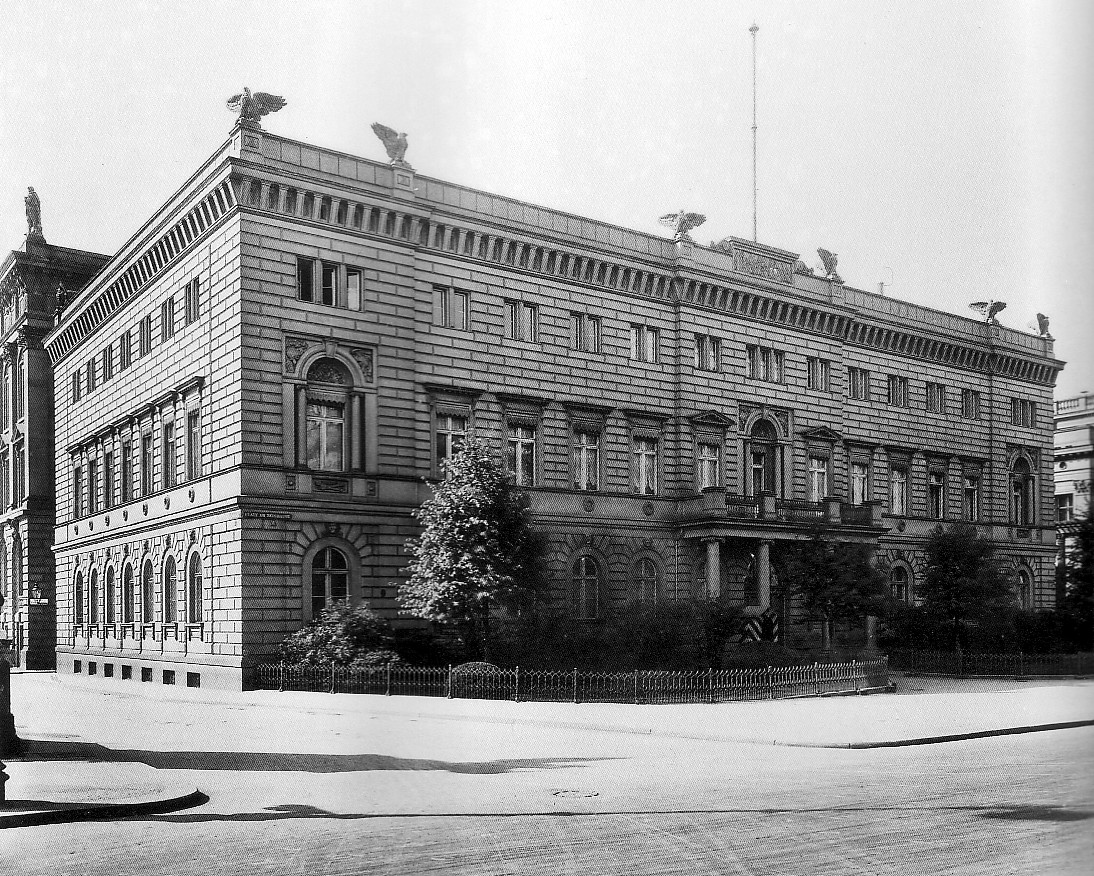 The City Commander's House in Unter den Linden in Berlin-Mitte (Germany). Destroyed in World War II and rebuilt 2001-03.